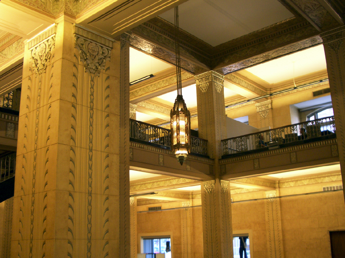 Main floor office, Kansas City Power and Light Building, Kansas City, Missouri